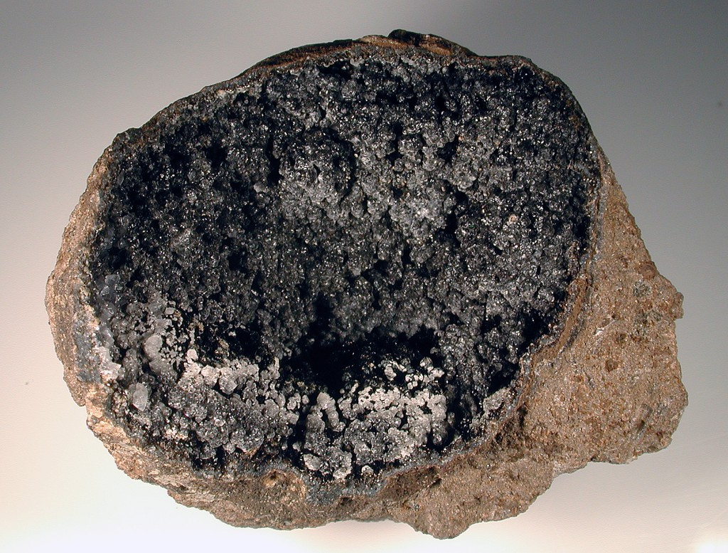 Nontronite Locality: Wolf Creek Pass, San Juan Mountains, Mineral Co., Colorado, USA Original description: Dark botryoidal nontronite with a thin coating of calcite, specimen is 35 mm across.